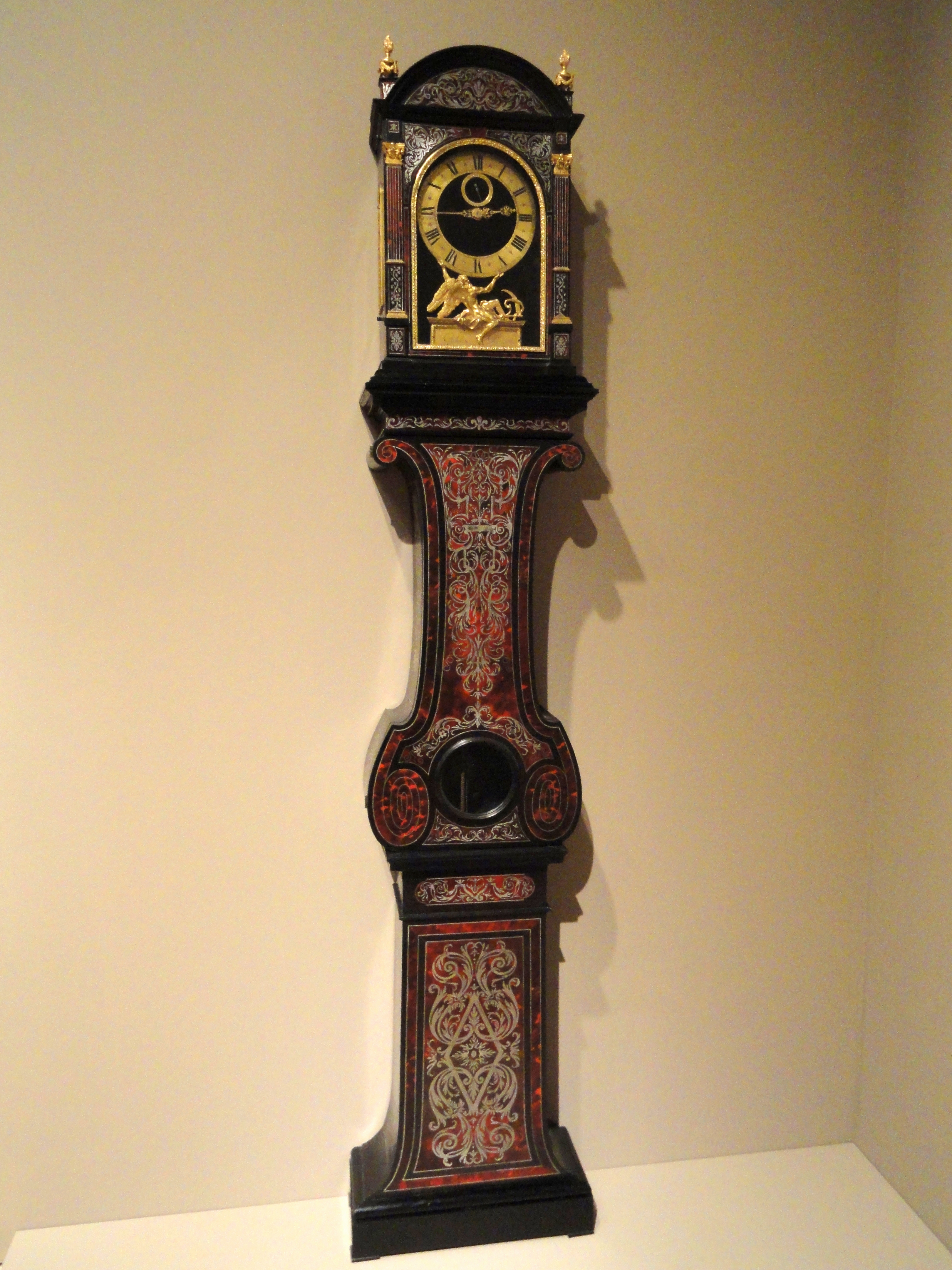 Longcase regulator, André-Charles Boulle, circa 1673-1674. Exhibit in the Indianapolis Museum of Art, Indianapolis, Indiana, USA.